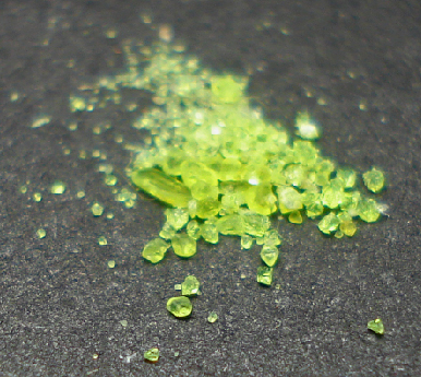 Uranyl Acetate crystals grown by the photographer. Under natural light. Photograph sized down in Photoshop